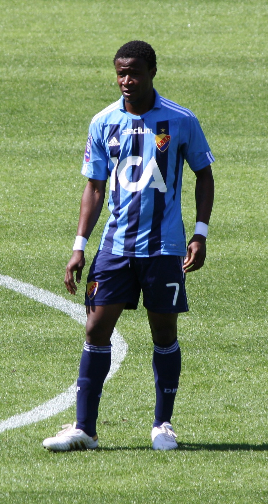 Kennedy Igboananike, Nigerian footballer.